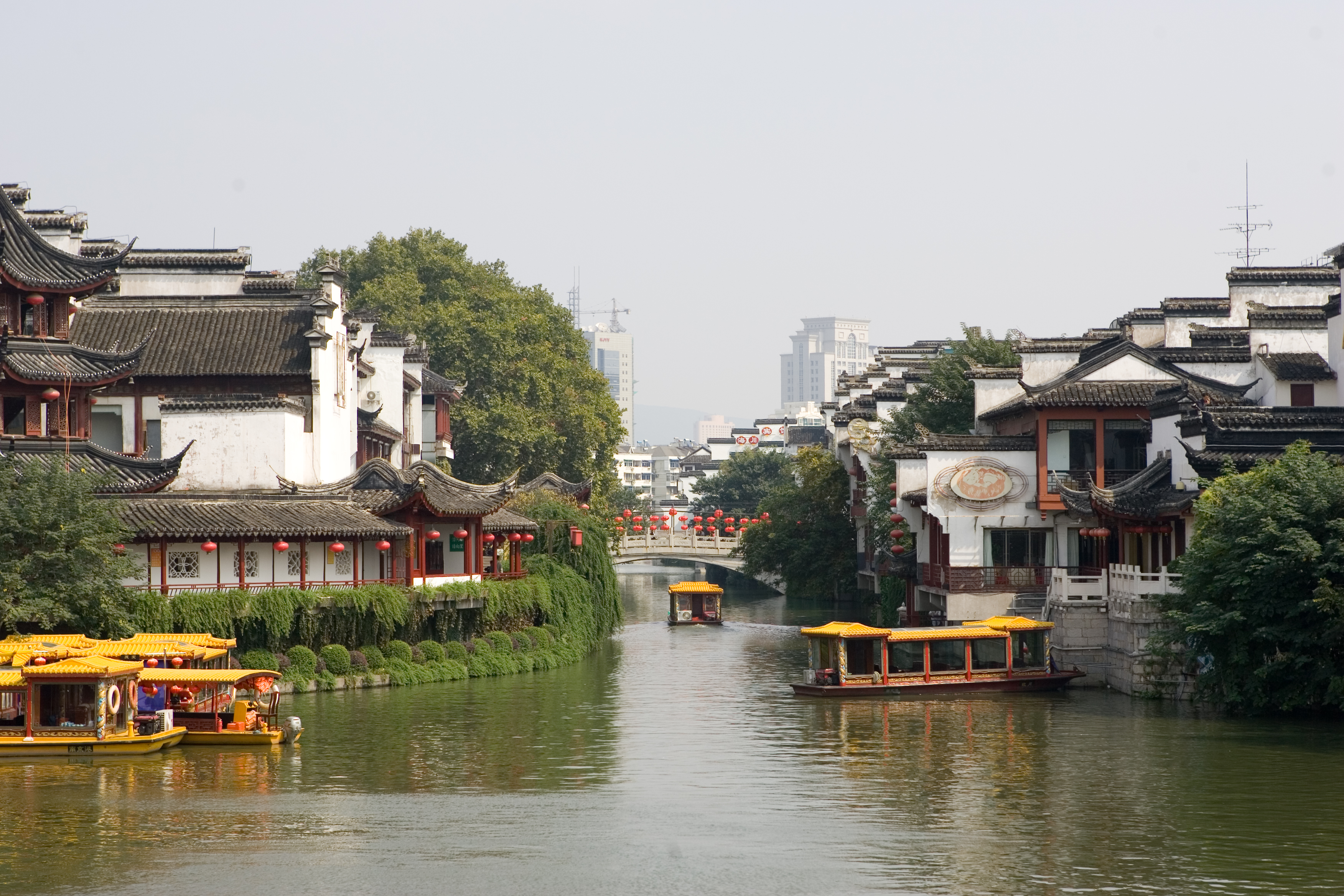 Qinhuai river, Conficious Temple in Nanjing